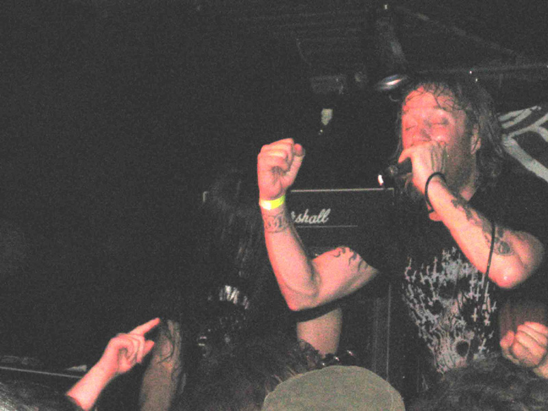 Tomas Lindberg sings with Disfear in Montreal on 2008-04-25.